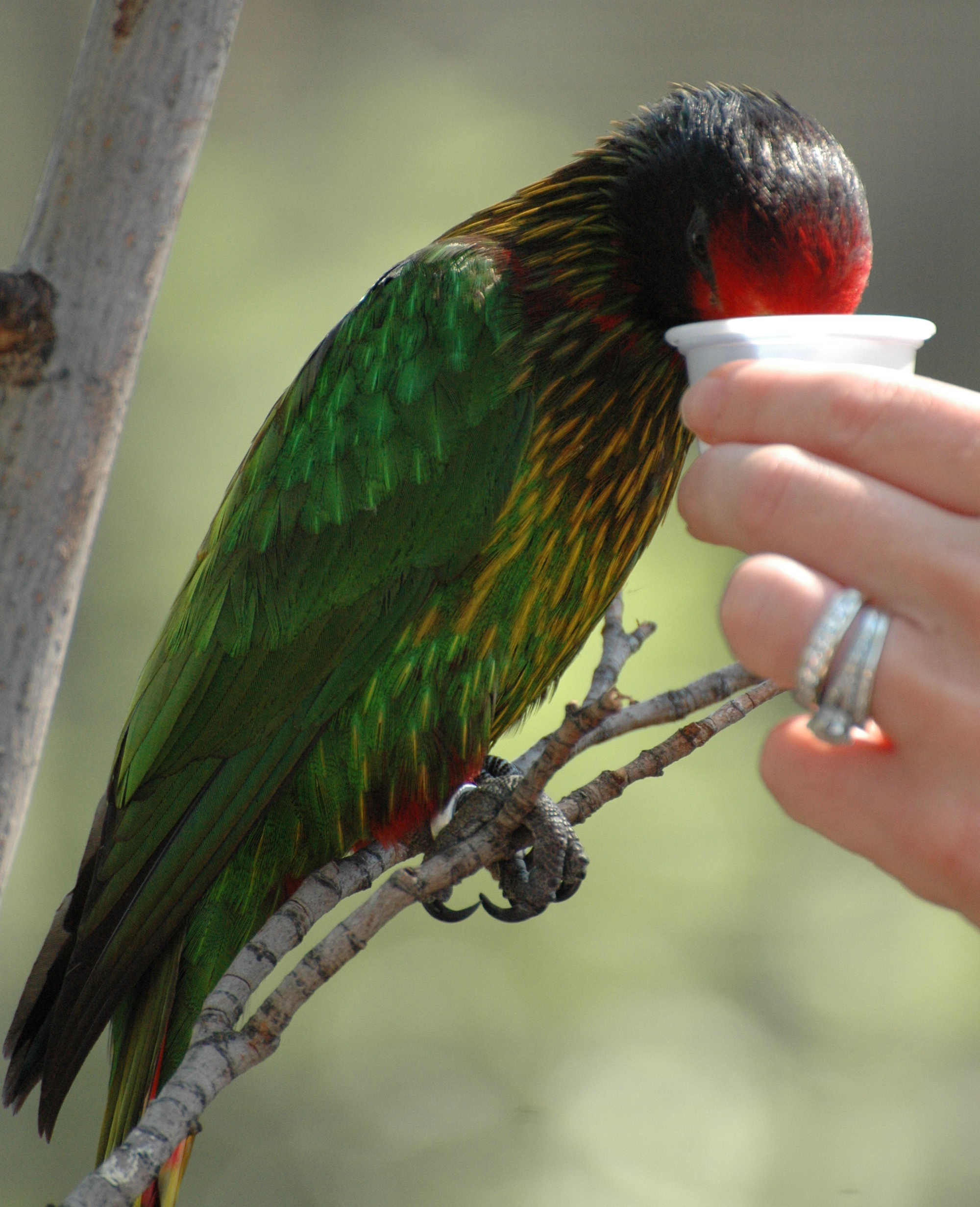 Yellow-streaked Lory (Chalcopsitta sintillata) at the Buffalo Zoo.